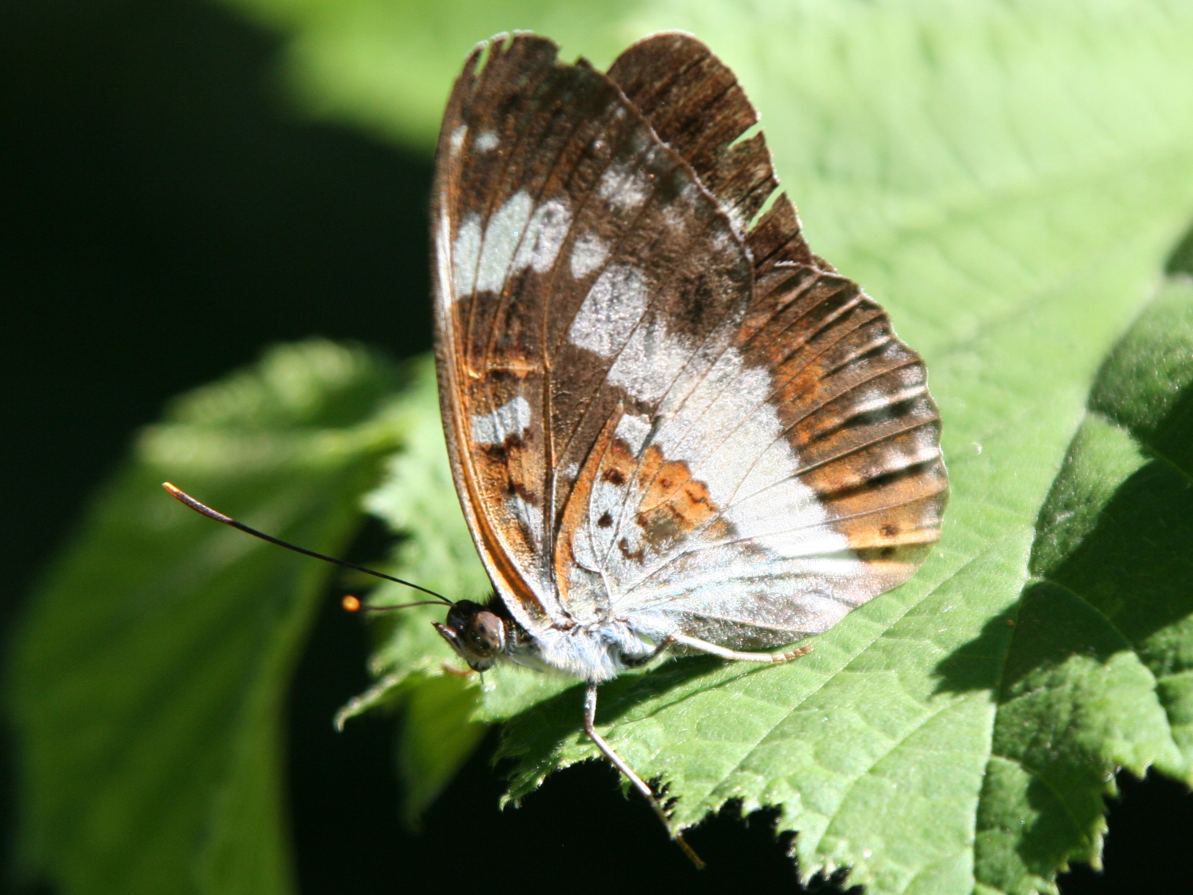 A White admiral butterfly (Limenitis camilla), photographed in Schwäbisch Hall-Wackershofen